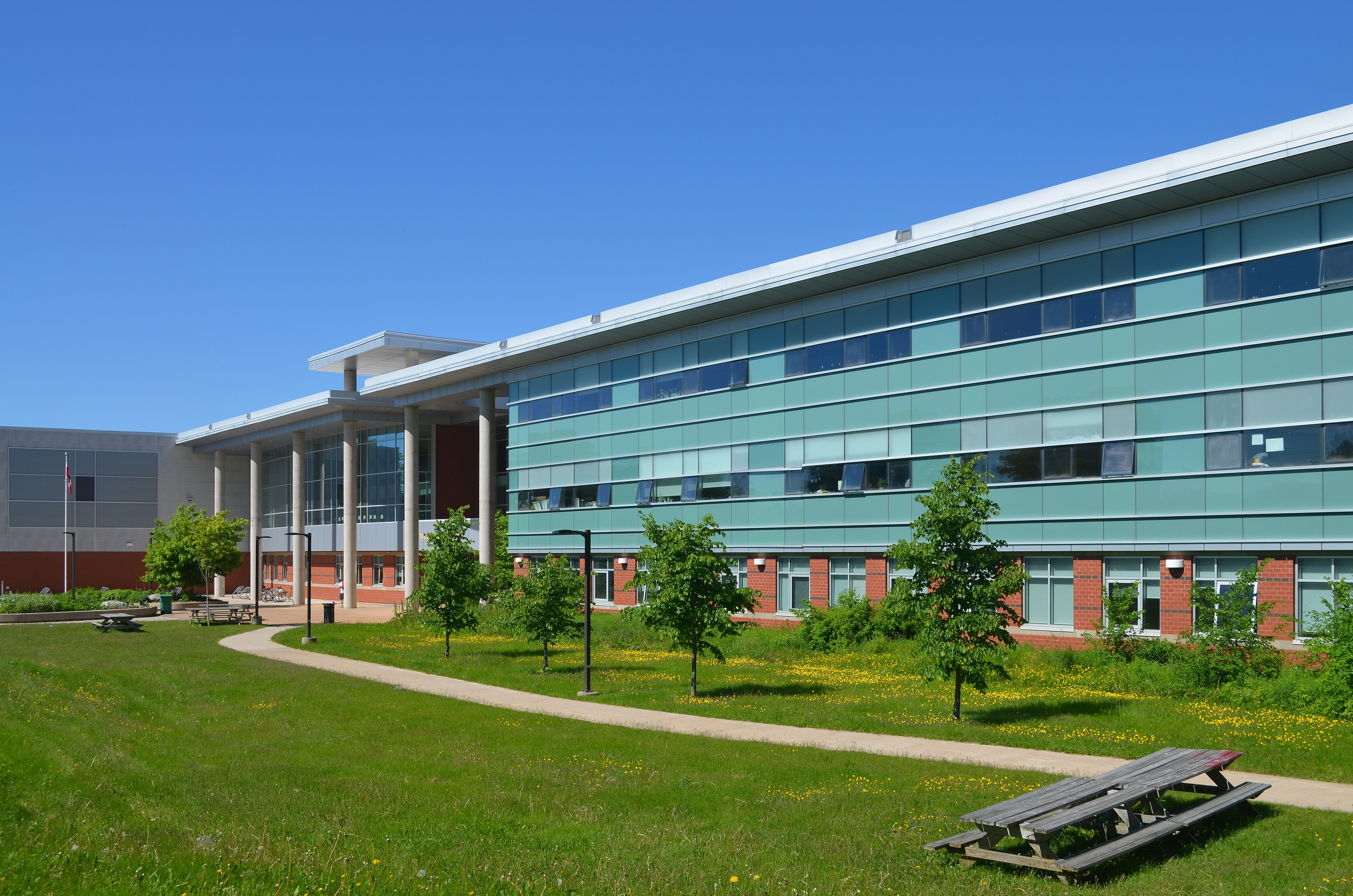 Front of Citadel High School (Halifax, Nova Scotia)